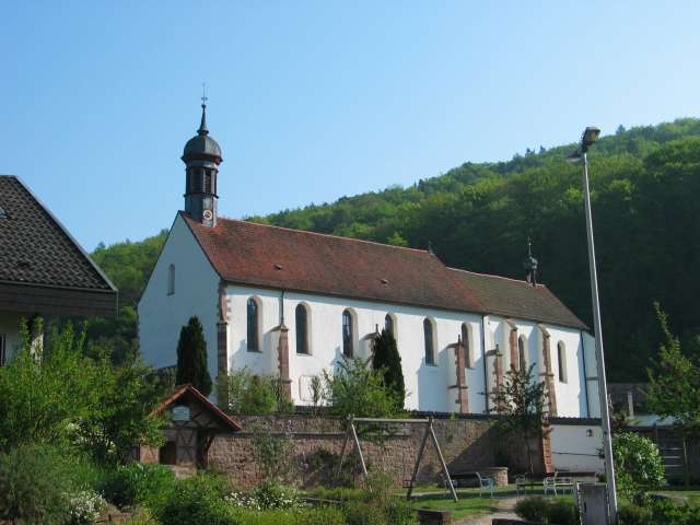 Abbey Franciscan-Minorite Order, church, Schoenau, Germany